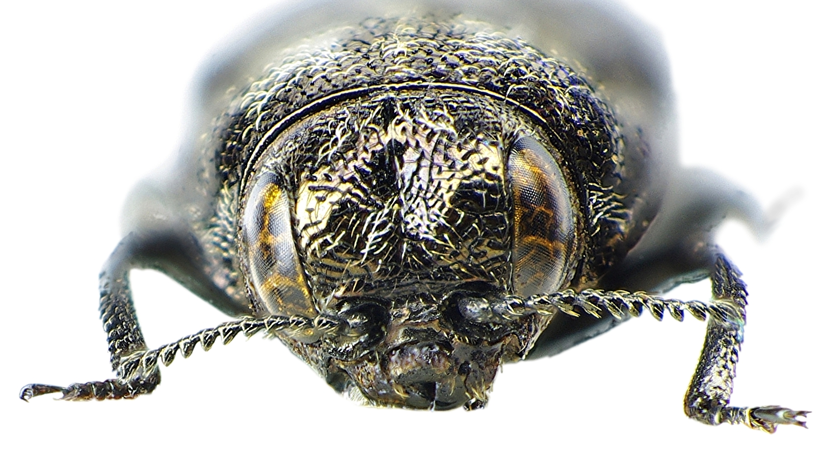 Coraebus rubi from Eastern Hungary